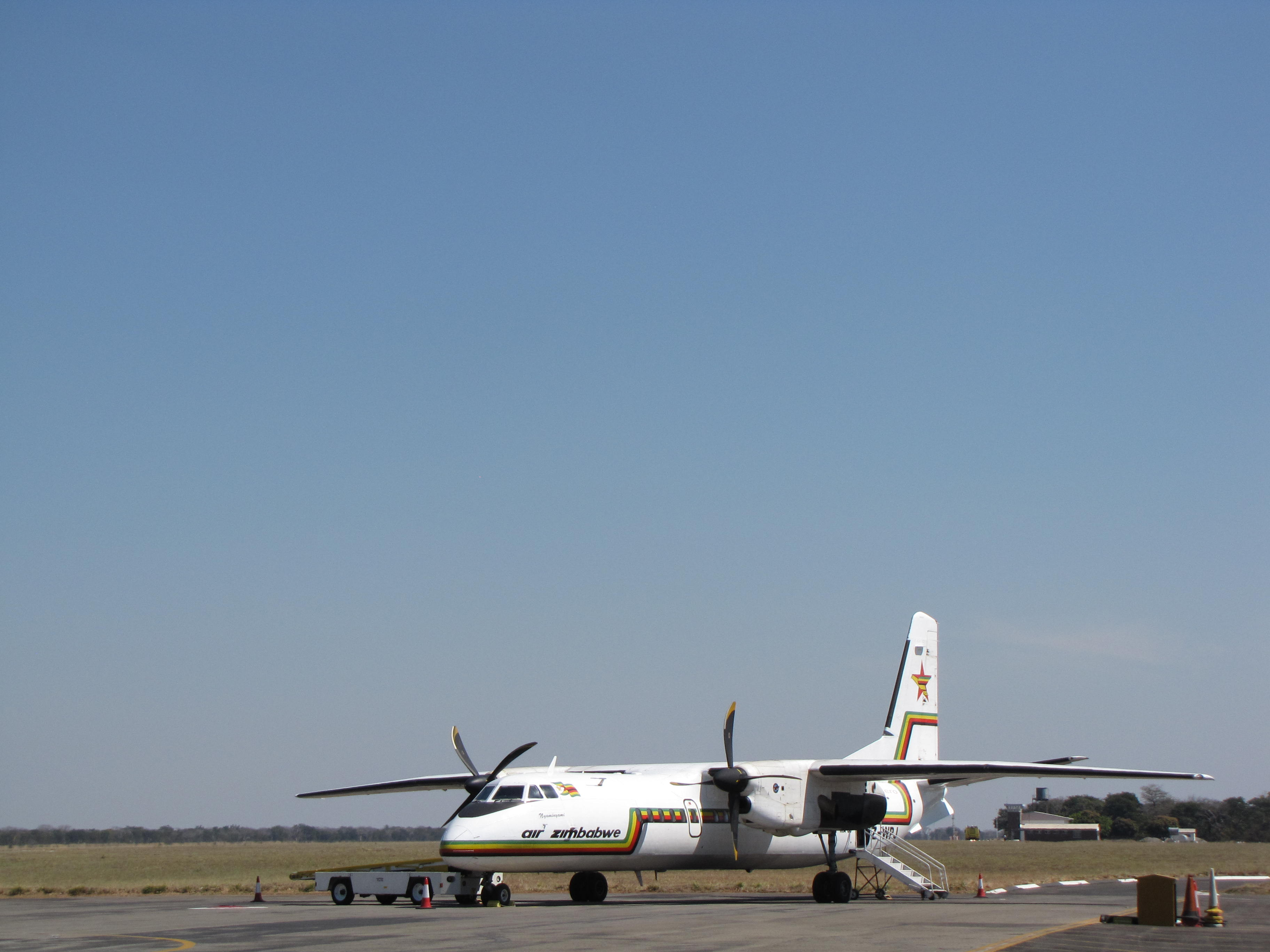 Air Zimbabwe MA60 aircraft